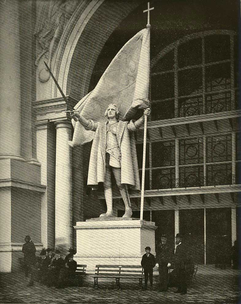 picture of statue of Columbus by Mary Lawrence